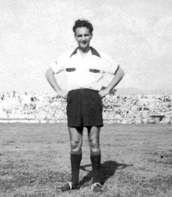 The magyar football player Gyula Zsengellér during his shift on AS Roma, Italy (1947)